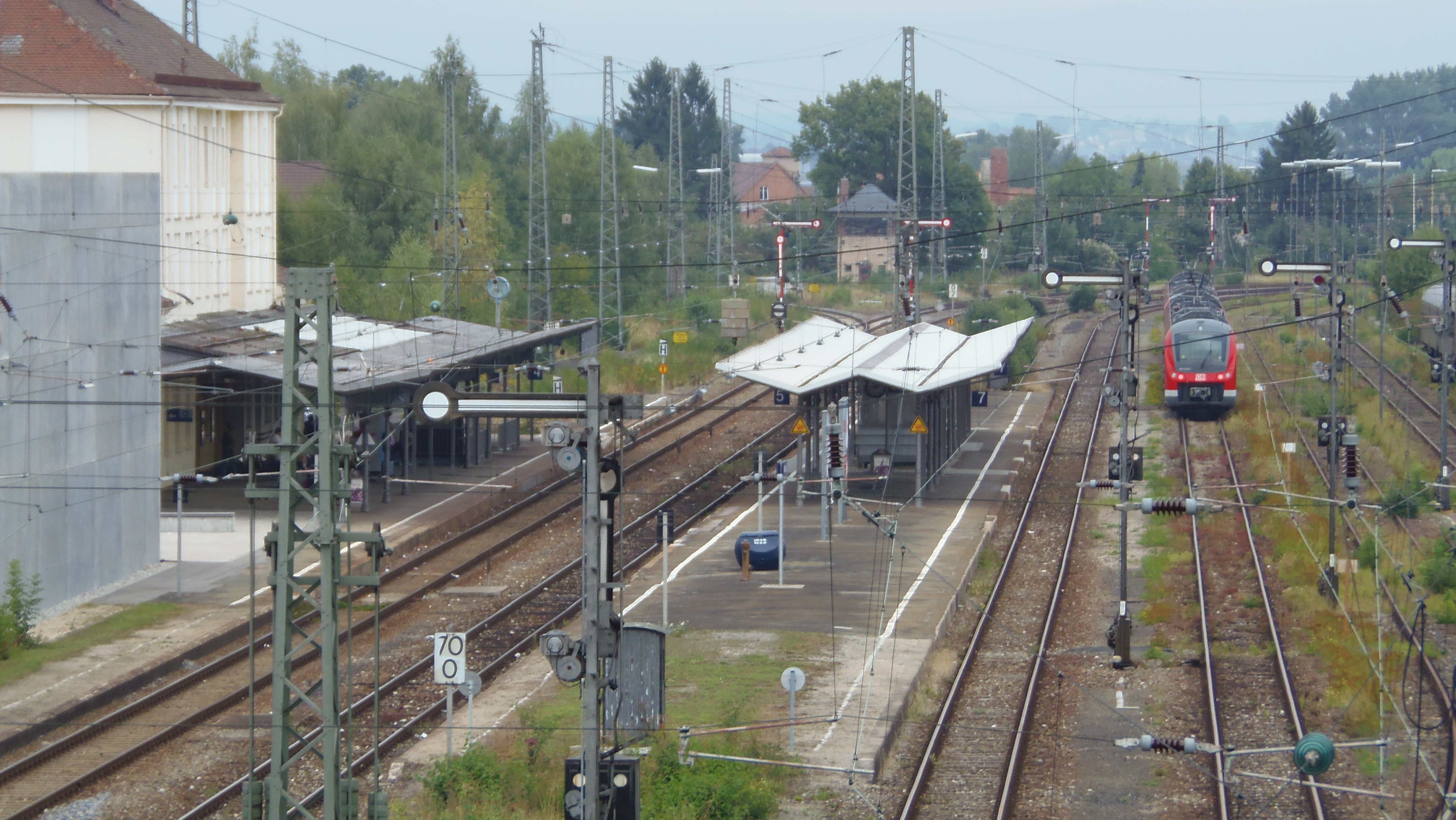 Track Field of the Train Station Nördlingen